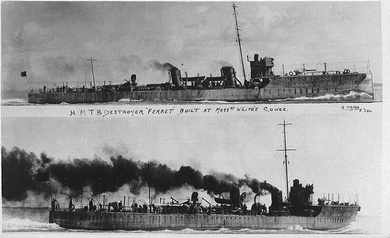 Two views of HMS Ferret